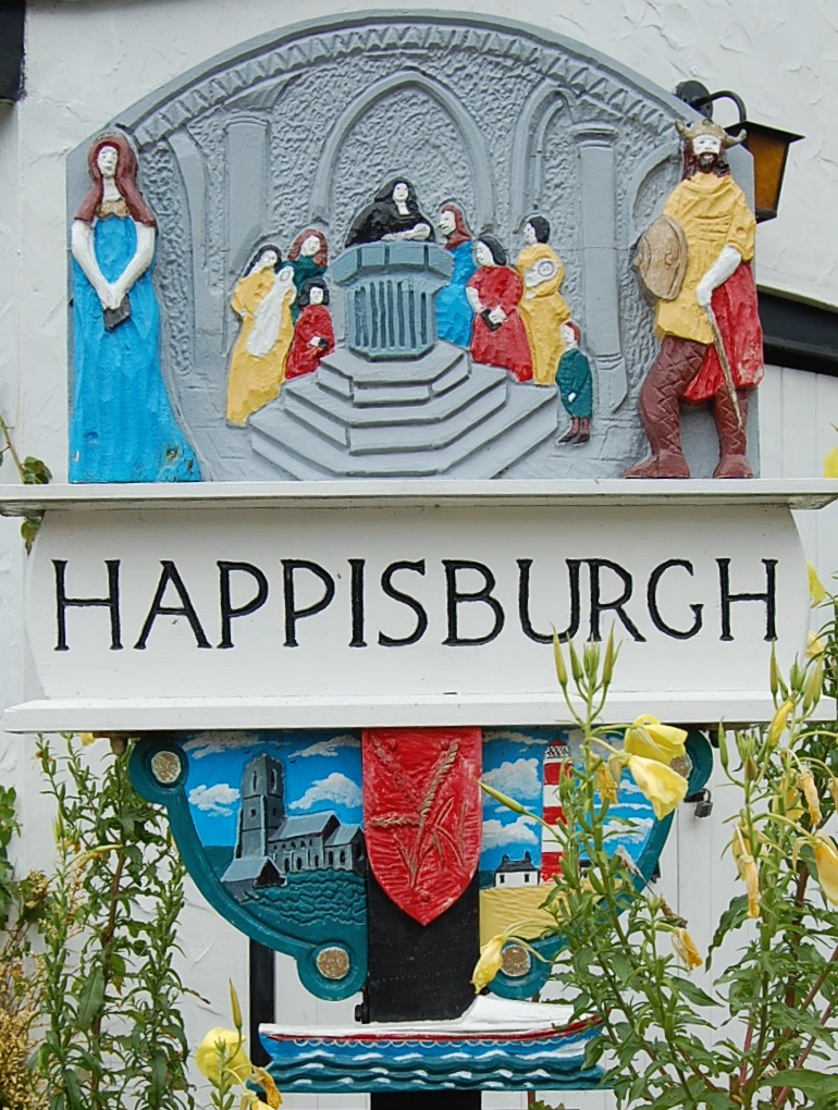 Detail from the village sign for Happisburgh, Norfolk, England.